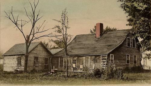 The Mooar-Wright House, Pownal, Vermont. It is believed to be the oldest house in Pownal and Vermont.